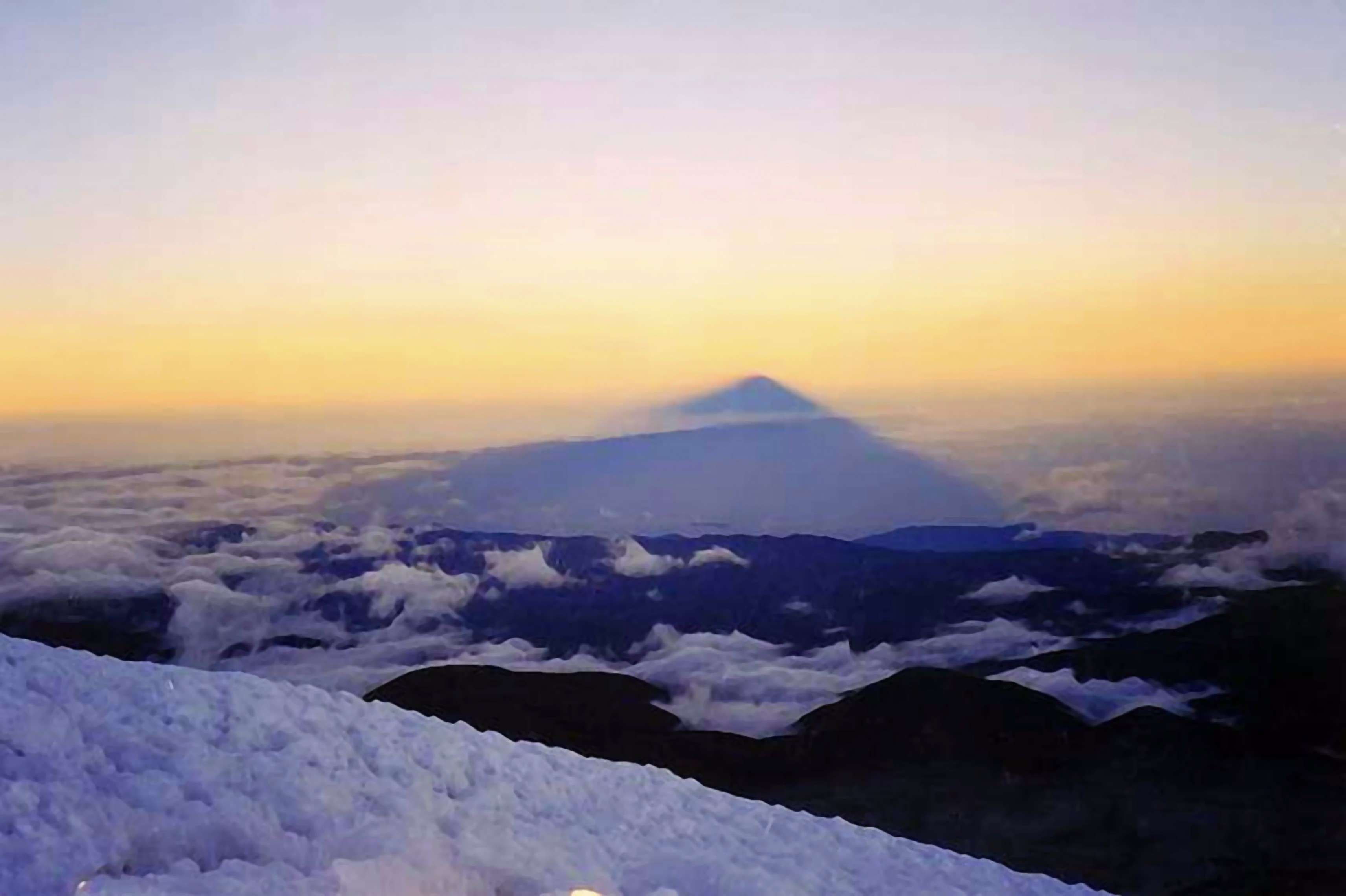 Shadow cast by the Chimborazo volcano, Ecuador, seen from the top of the mountain.